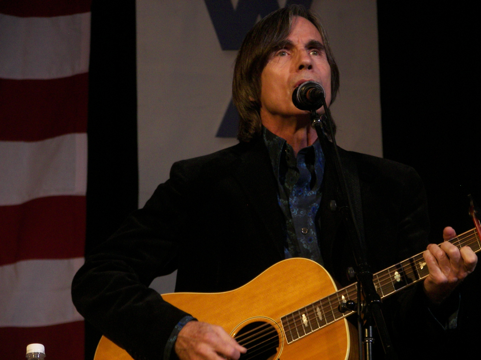 American singer Jackson Browne, aiding the John Edwards 2008 campaign